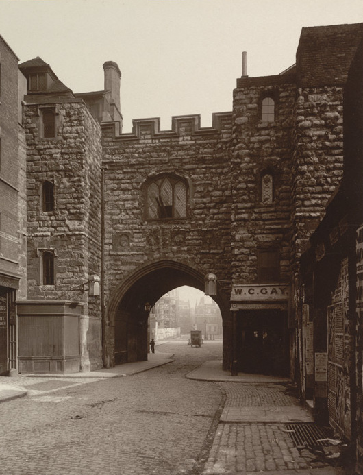 "Saint John's Gate, Clerkenwell, the main gateway to the Priory of Saint John of Jerusalem," black and white photograph by the British photographer Henry Dixon, 1880. The church was founded in the 12th century by Jordan de Briset, a Norman knight. Prior Docwra completed the gatehouse shown in this photograph in 1504. The gateway served as the main entry to the Priory, which was the center of the Order of St John of Jerusalem (the Knights Hospitallers). Courtesy of the British Library, London.